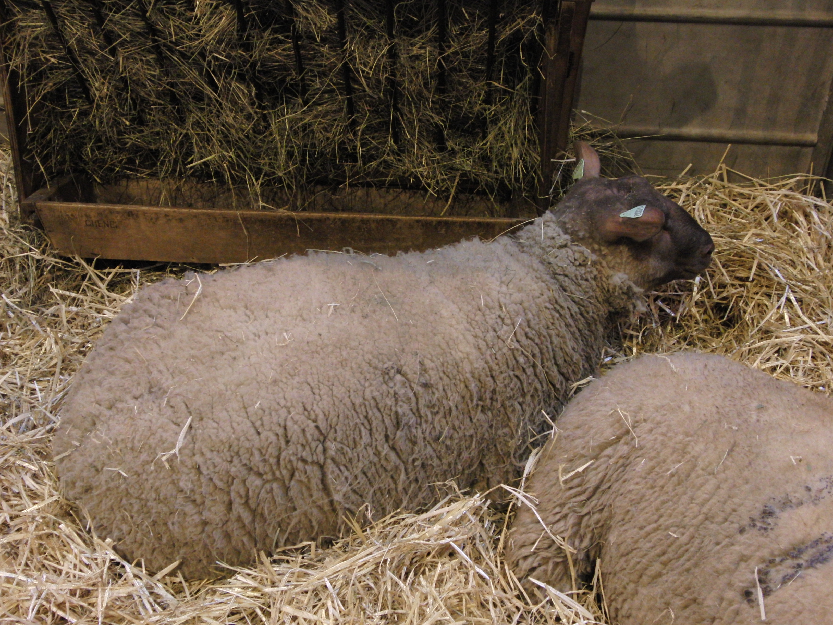 Roussin de la Hague sheep - Salon international de l'agriculture 2011, Paris, France